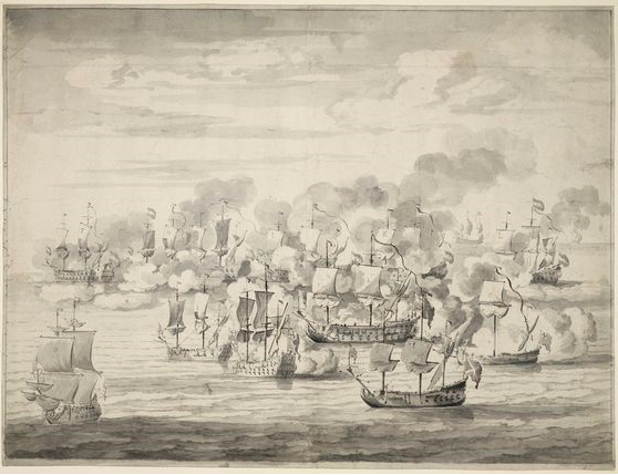 A depiction of Sir John Kempthorne's battle in HMS Mary Rose against seven Algerines, December 1669.